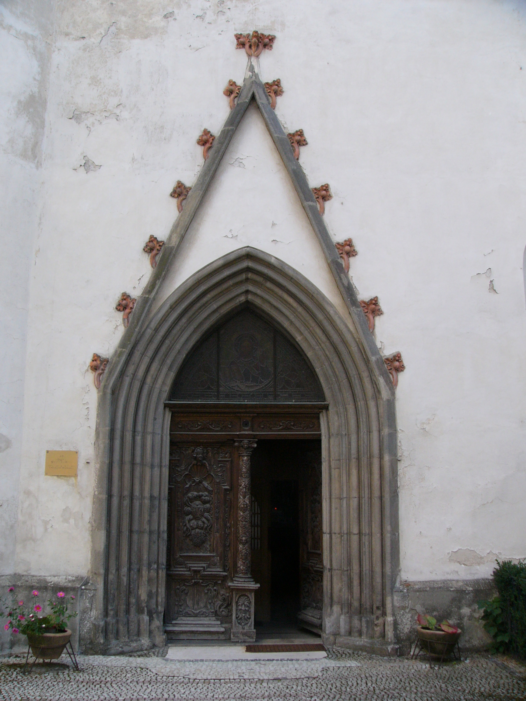 Portal of church Kostel svaté Kateřiny in Olomouc (Czech Republic).